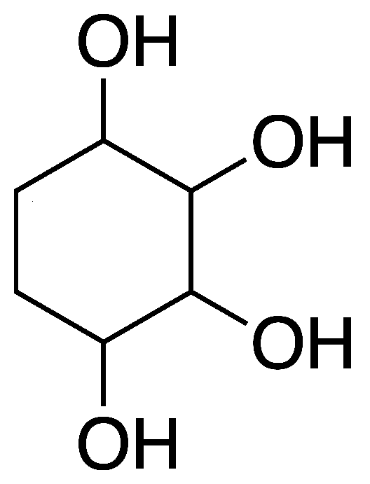 Structural diagram of the cyclitol 1,2,3,4-cyclohexanetetrol (cyclohexane-1,2,3,4-tetrol, 1,2,3,4-tetrahydroxycyclohexane). There are 10 stereoisomers with this structure, that differ on the position of the hydroxyls relative to the mean plane of the ring. Two of those (1,2,3,4/0 and 1,4/2,3) are achiral, and the other 8 constitute 4 enantiomer pairs. This count considers the ring planar, and does not take into account geometric isomerism due to distortion of the ring from planarity (the "boat" and "chair" conformations). This image was created by editing File:Conduritol-generic.png, uploaded by User:DMacks, with the Gimp editor.